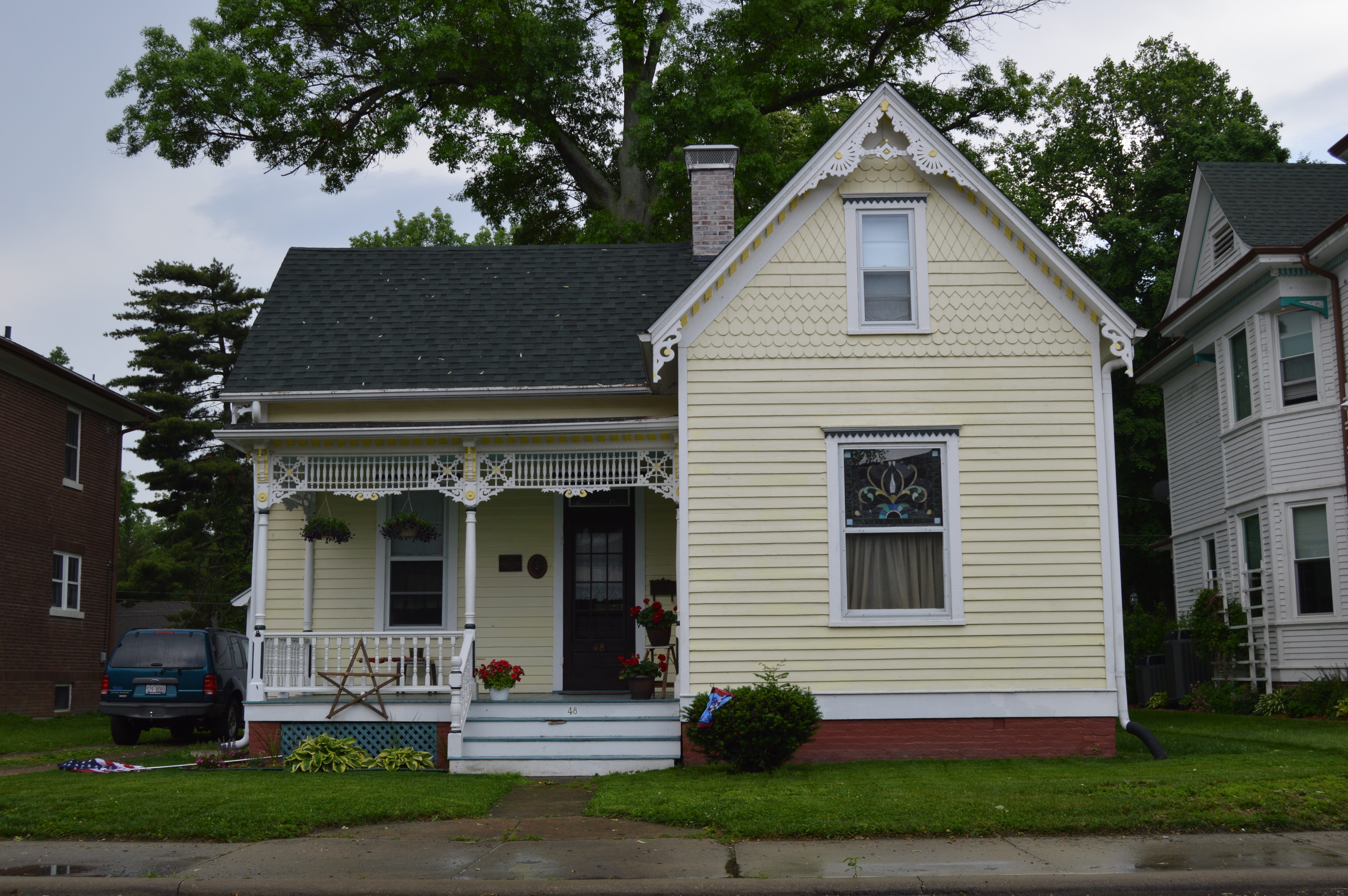 Front of one of the George Draser, Jr., Houses, located at 48 W. Main Street (Illinois Route 177) in Mascoutah, Illinois, United States. Built in 1885, it is listed on the National Register of Historic Places.